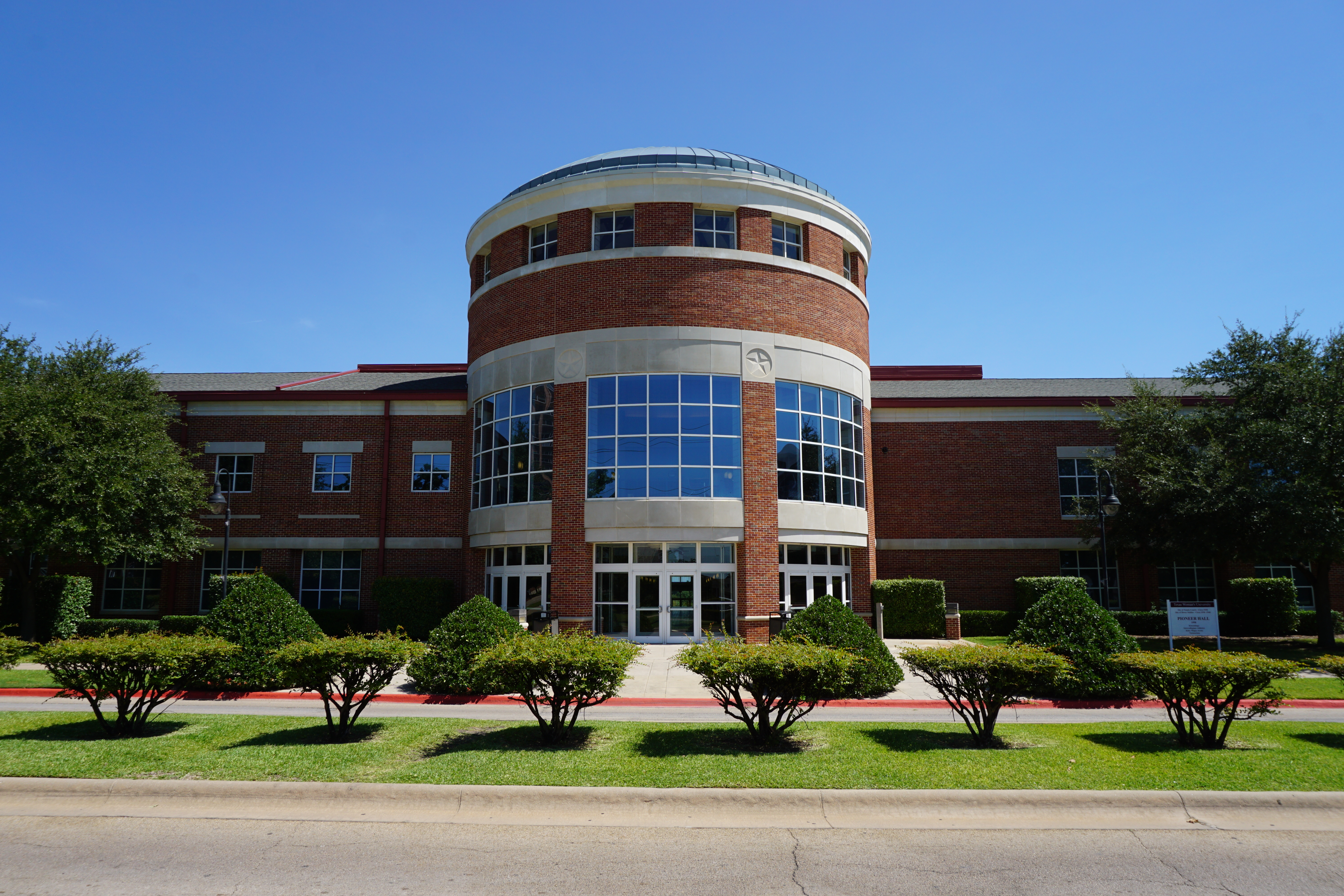 Pioneer Hall on the campus of Texas Woman's University in Denton, Texas (United States).